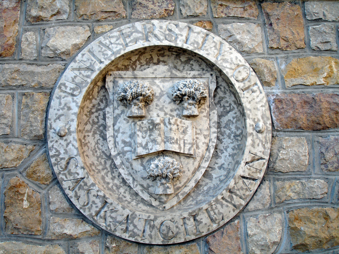 University of Saskatchewan crest, carved out of Tyndall stone and set in a greystone(fieldstone) wall. Located outside the Administration Building on the U of S campus in Saskatoon, Saskatchewan, Canada. Tessella Stone Carvers Inc., Stone Carver- Colleen Wilson.